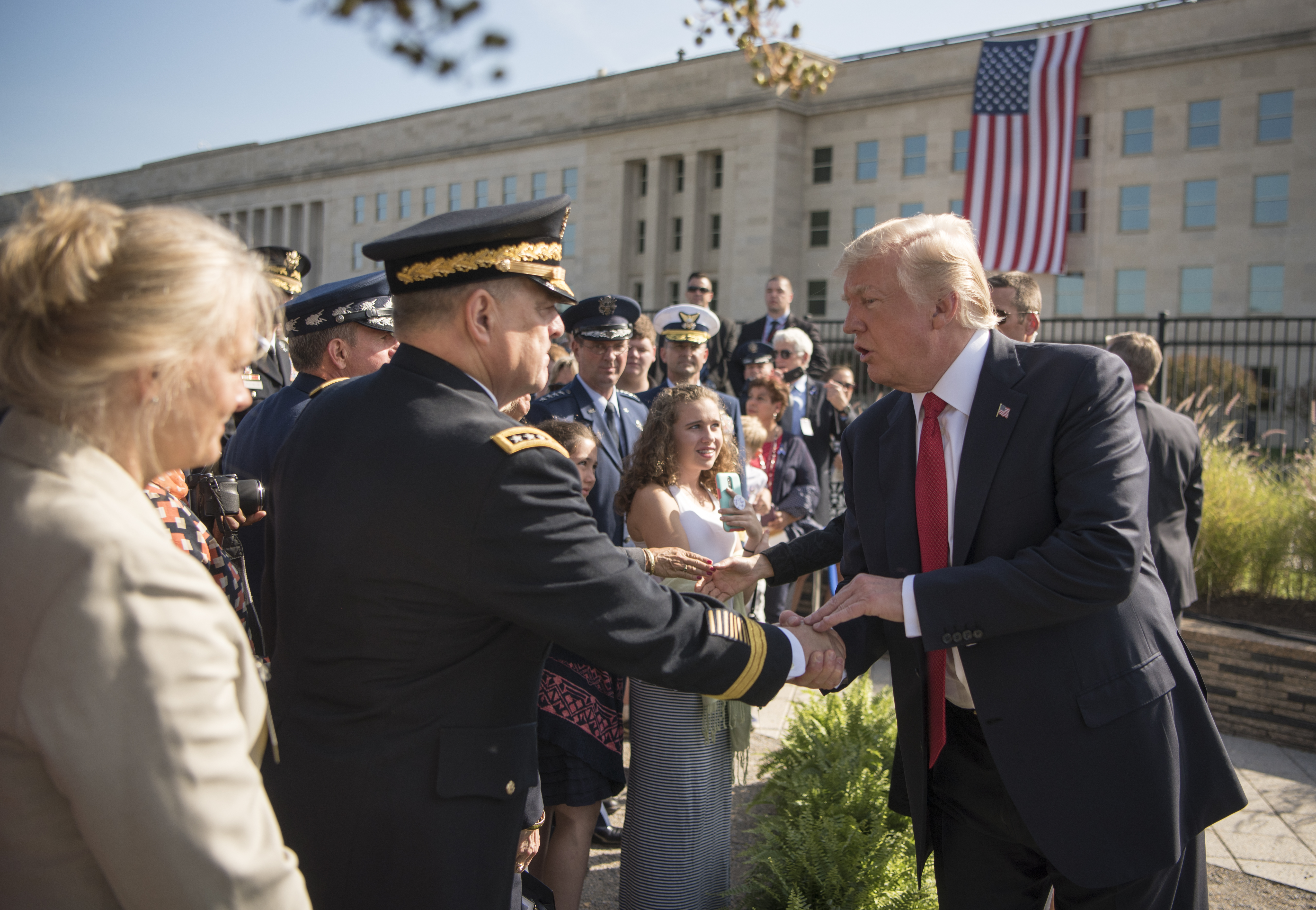 President Donald Trump shakes hands with U.S. Army Chief of Staff, Gen. Mark A. Milley following the 9/11 Observance Ceremony at the Pentagon in Arlington, Va., Sept. 11, 2017. (DOD photo by Army Sgt. Amber I. Smith)